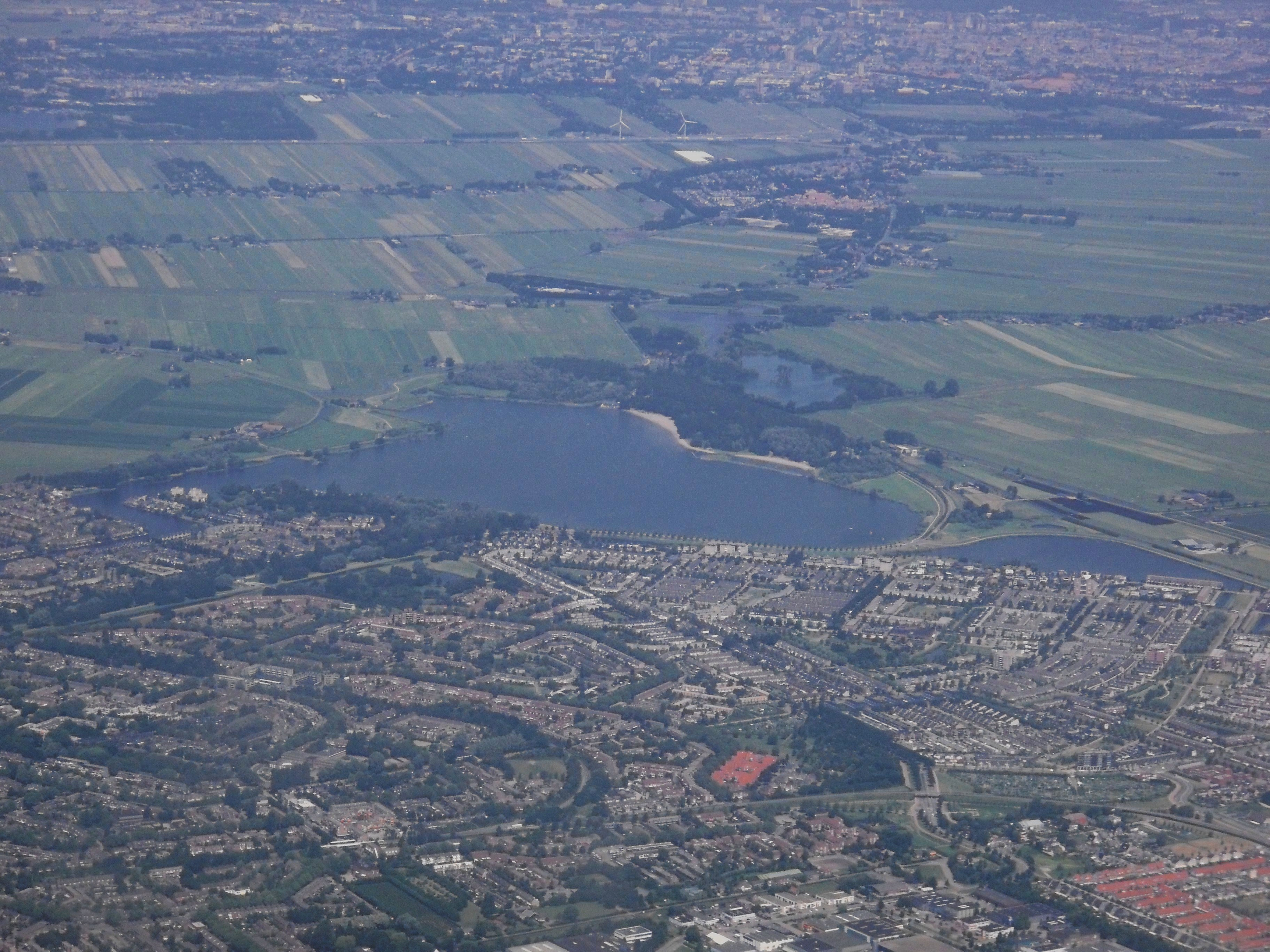 Air photo of the dutch recreation park "Zoetermeerse Plas" in Zoetermeer.